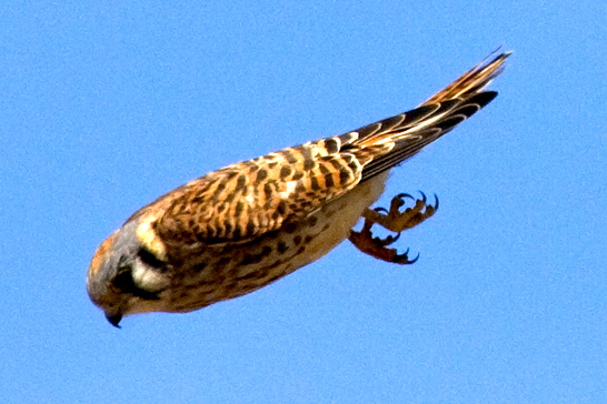 American Kestrel (Falco sparverius) about to catch a snake. These were taken at the first turnout off South Bay Blvd on Turri Road. 40D/100-400L.